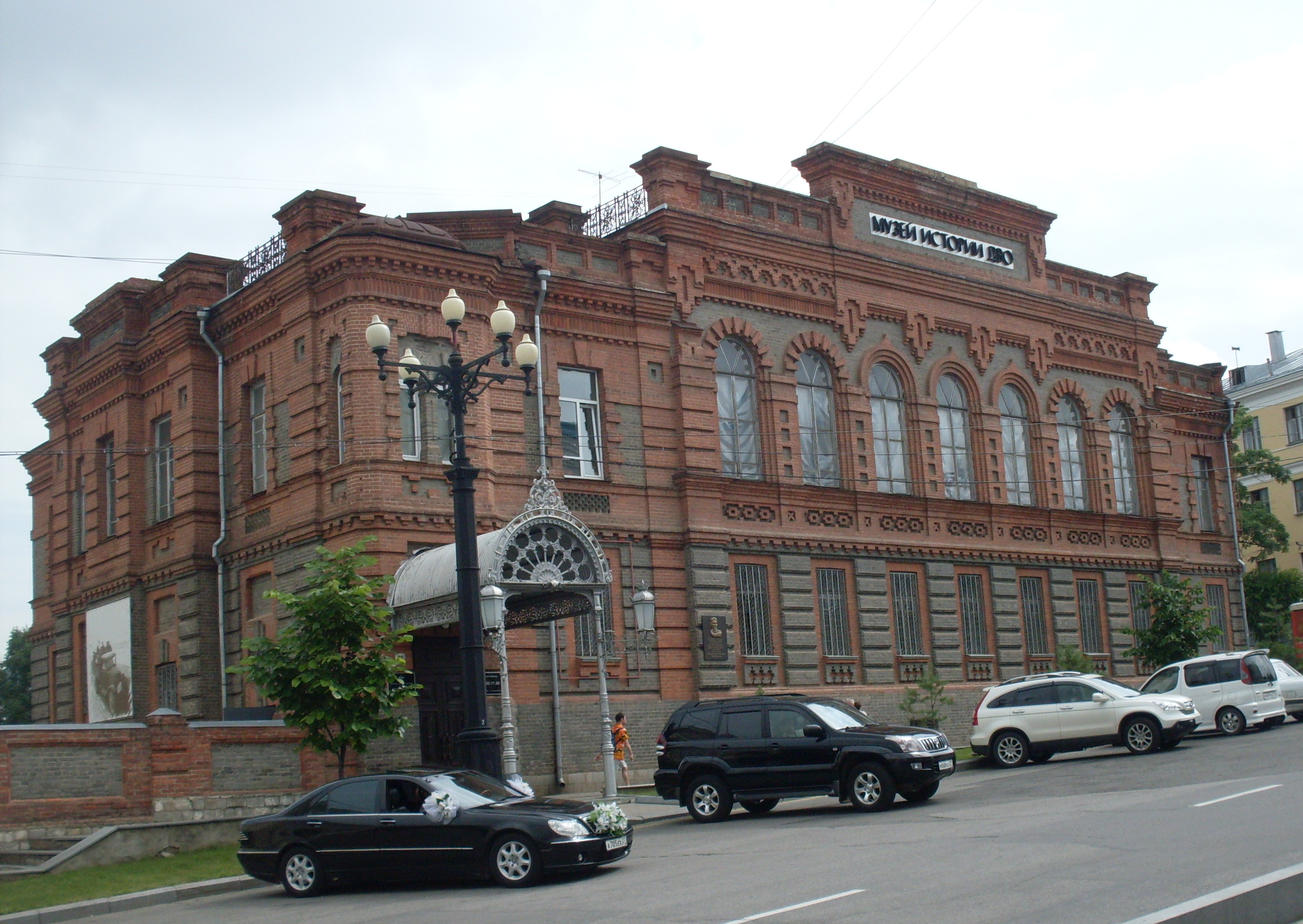 Military Museum in Khabarovsk